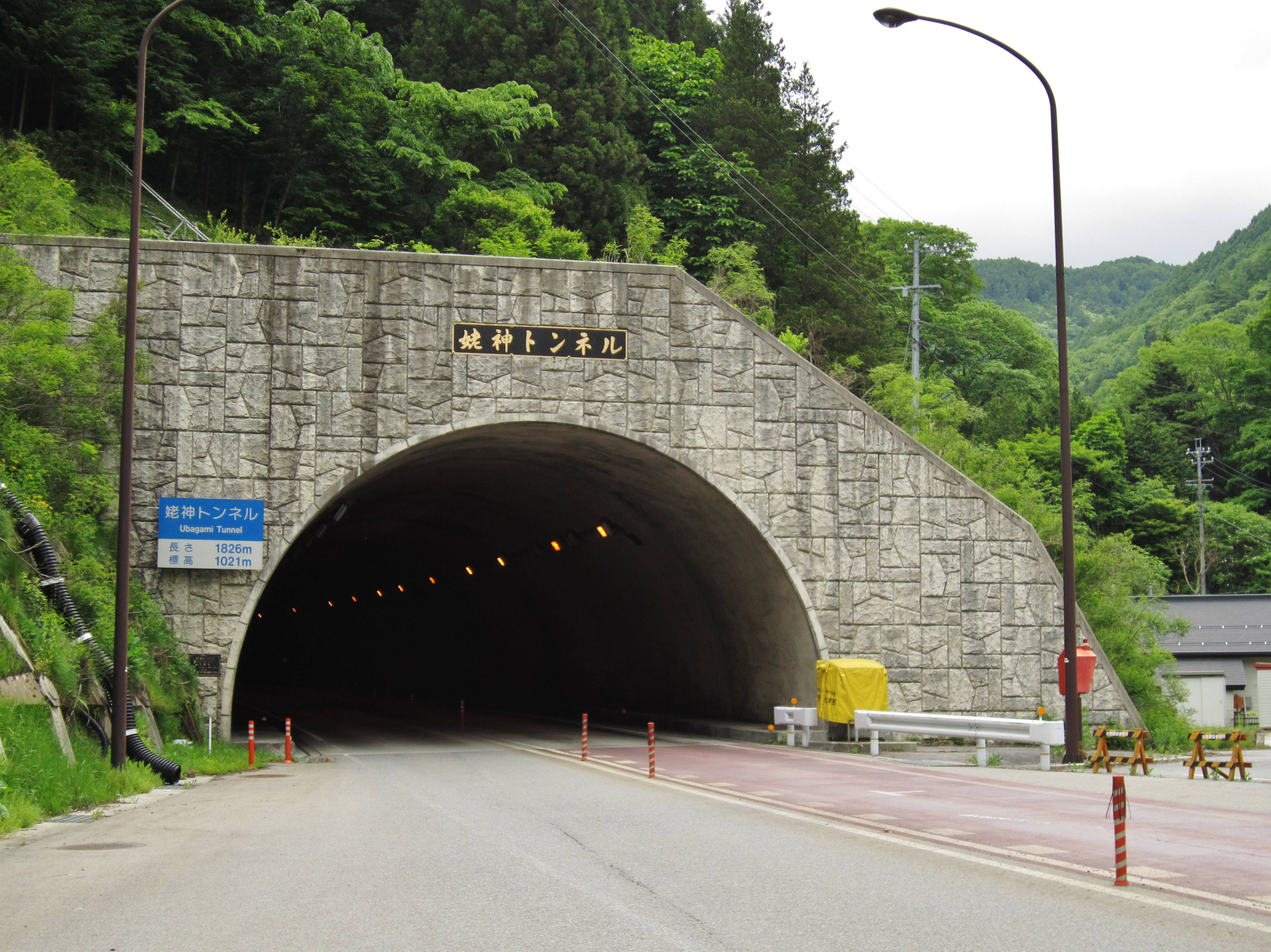 Ubagami Tunnel.